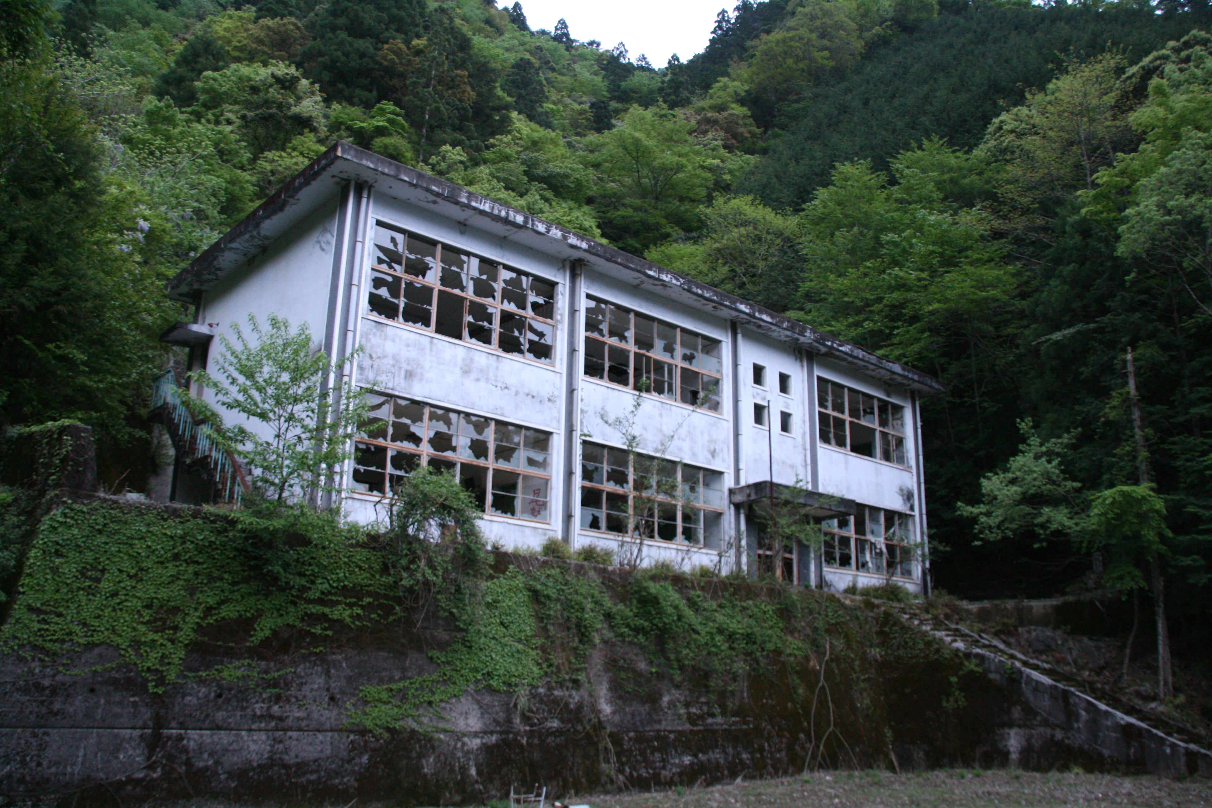 Nishihara, Kamikitayama, Yoshino District, Nara Prefecture 639-3704, Japan